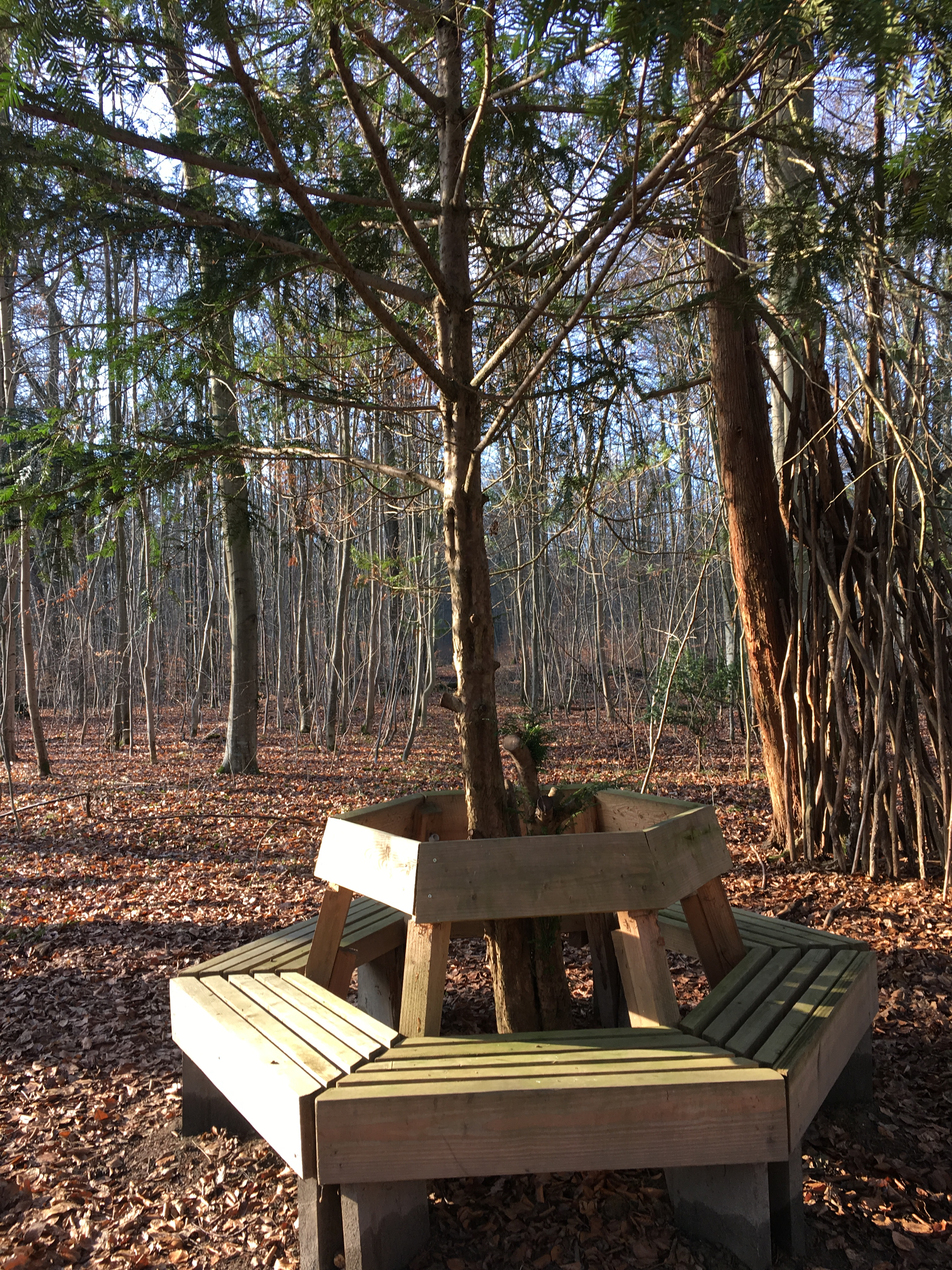 Kannenbruch